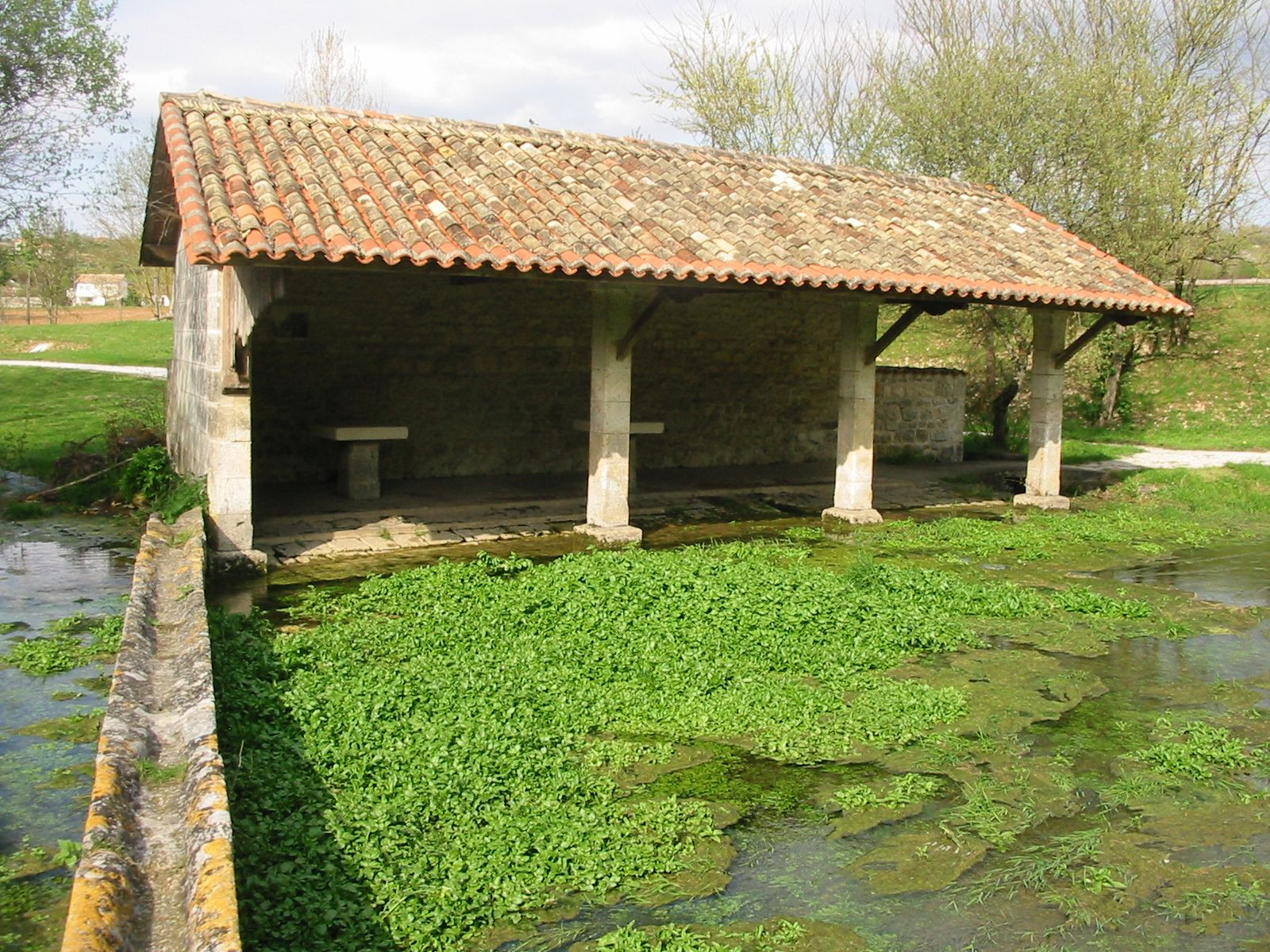 The Lèche Spring near Touvre Springs (Charente, France)